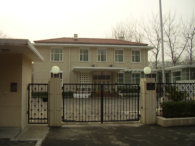 Photograph of the Guyana Embassy in Beijing